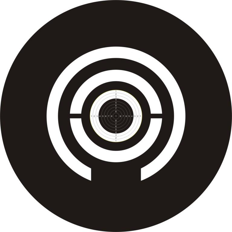 Match diopter sight picture. The diameters of the aiming elements have to be regulated for the target size, shooting distance and lighting conditions. This method allows very accurate aiming at the round targets as used in various ISSF shooting events.